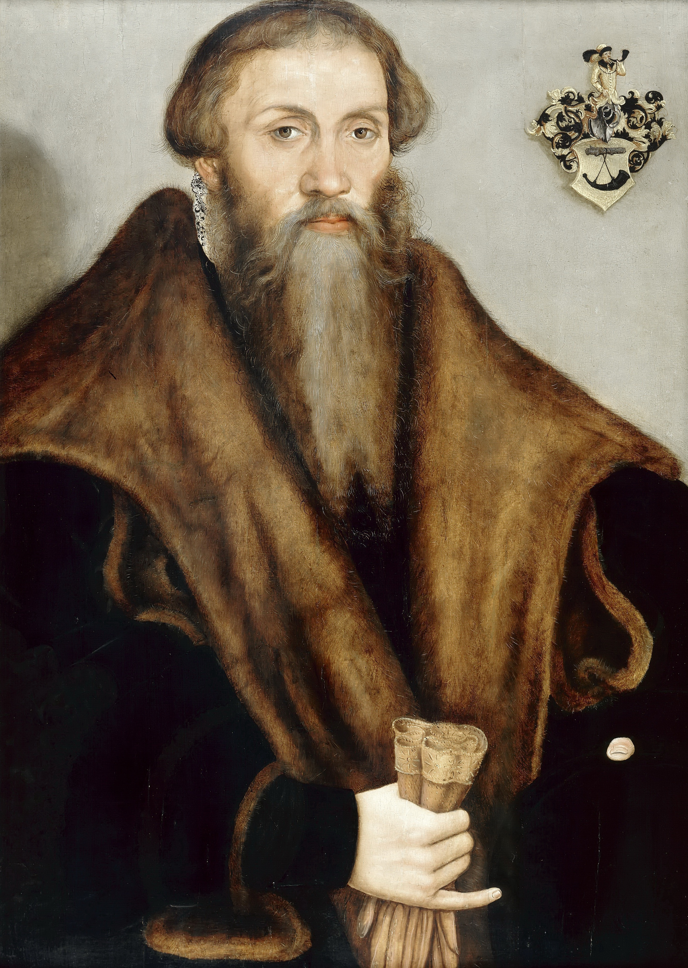 Leonhard Badehorn (6. Nov. 1510 Meißen - 1587 Leipzig) was the rector of the University of Leipzig (1537) and the saxon envoy at the Council of Trent (1552).